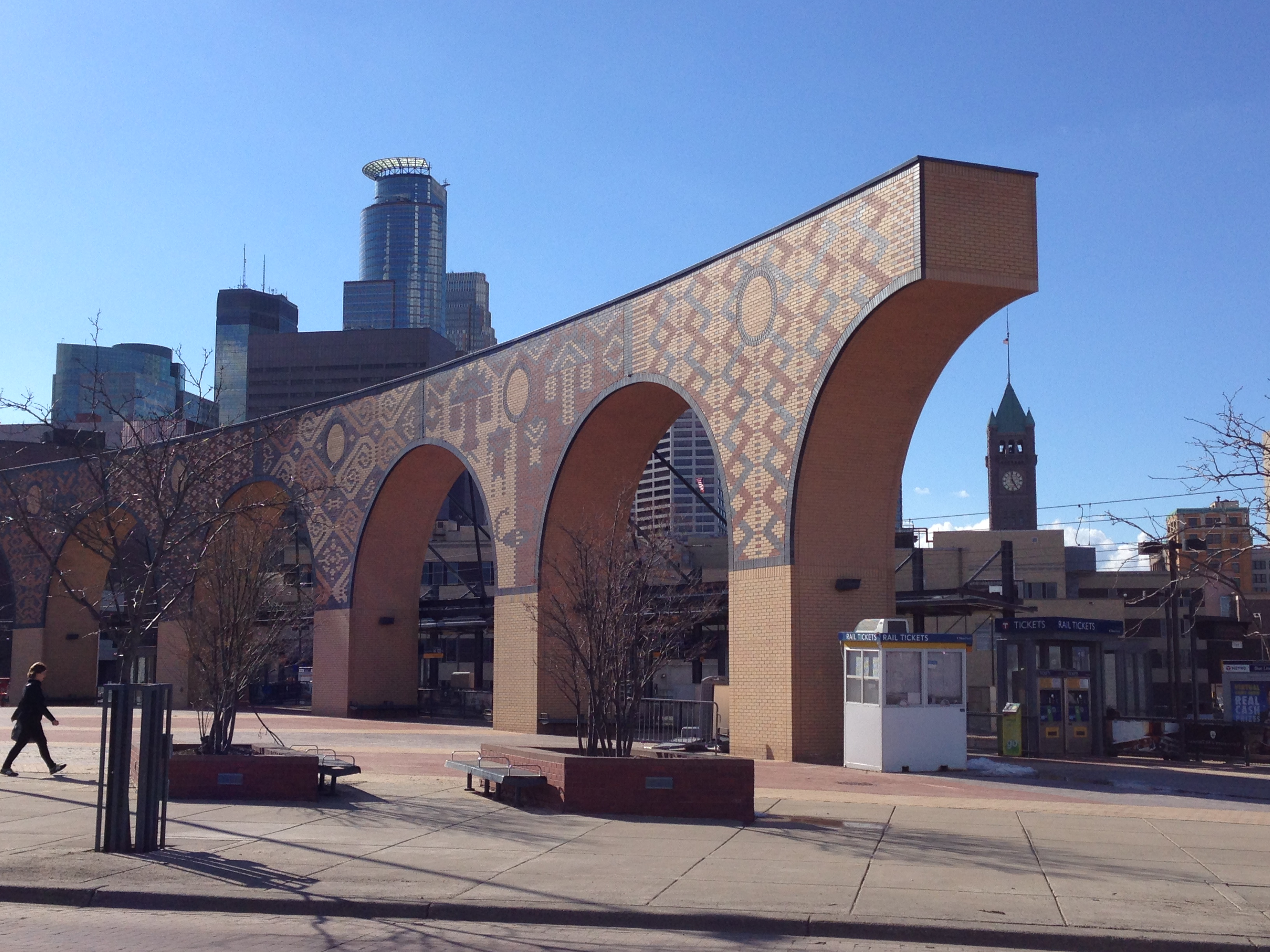 The Downtown East light rail station in Minneapolis, Minnesota with the Minneapolis skyline in the background, and decorative stone arches in the foreground.